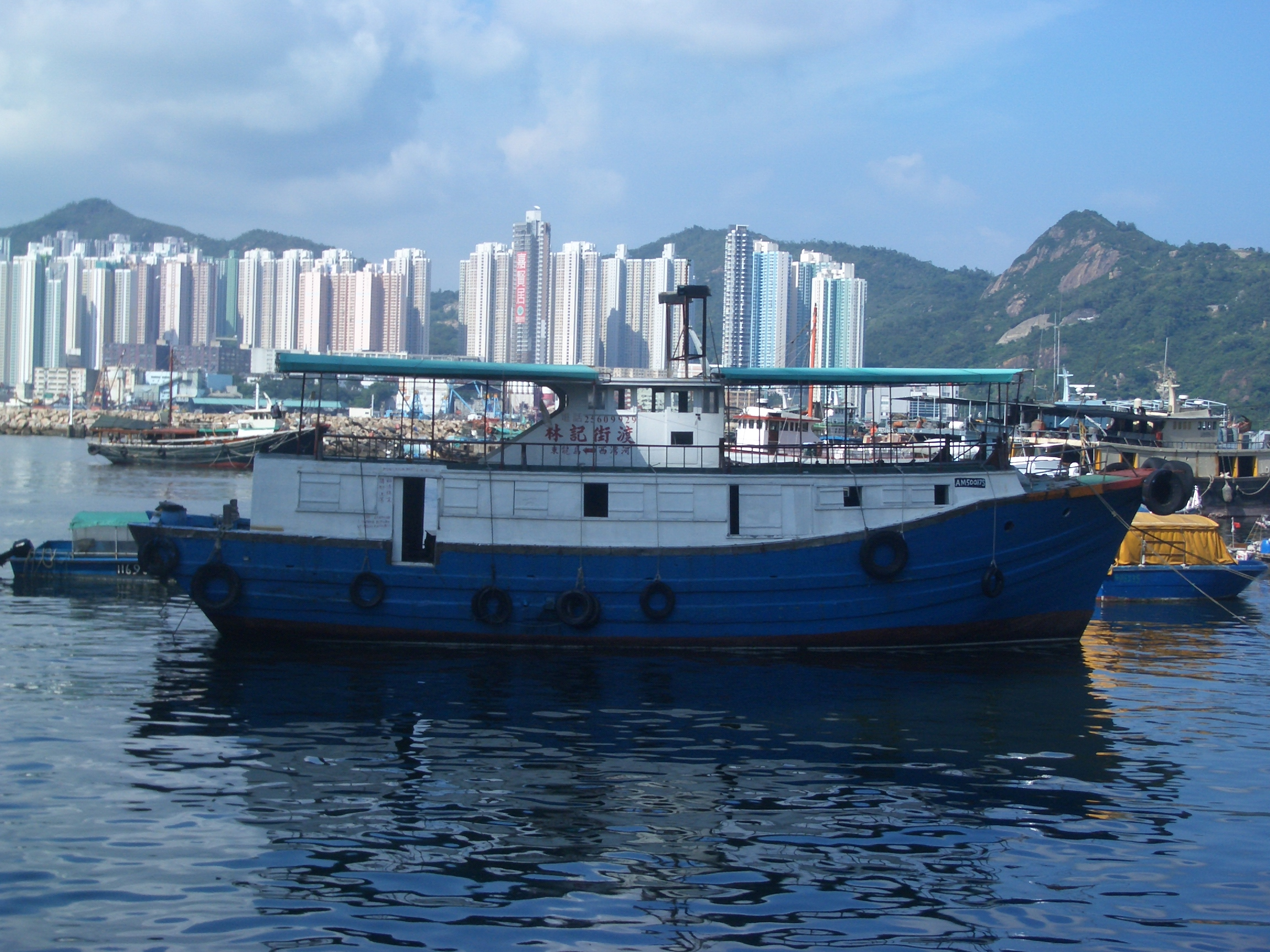 Fishing Boat (No. AM50017S) of Lam Kee Ferry 中文（香港）: 林記街渡編號 AM50017S 的漁船